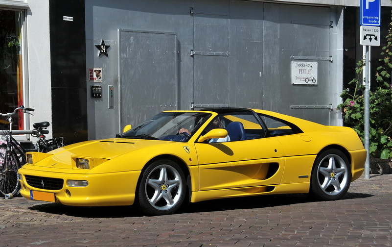 Ferrari F355 (1999)